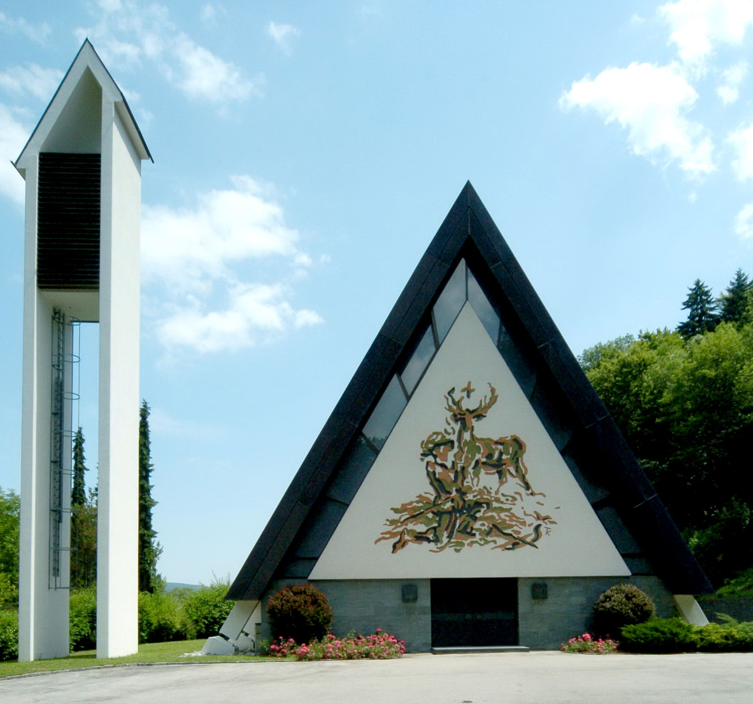 Subsidiary church Saint Hubertus in Sekirn, municipality Maria Wörth, district Klagenfurt Land, Carinthia, Austria, EU